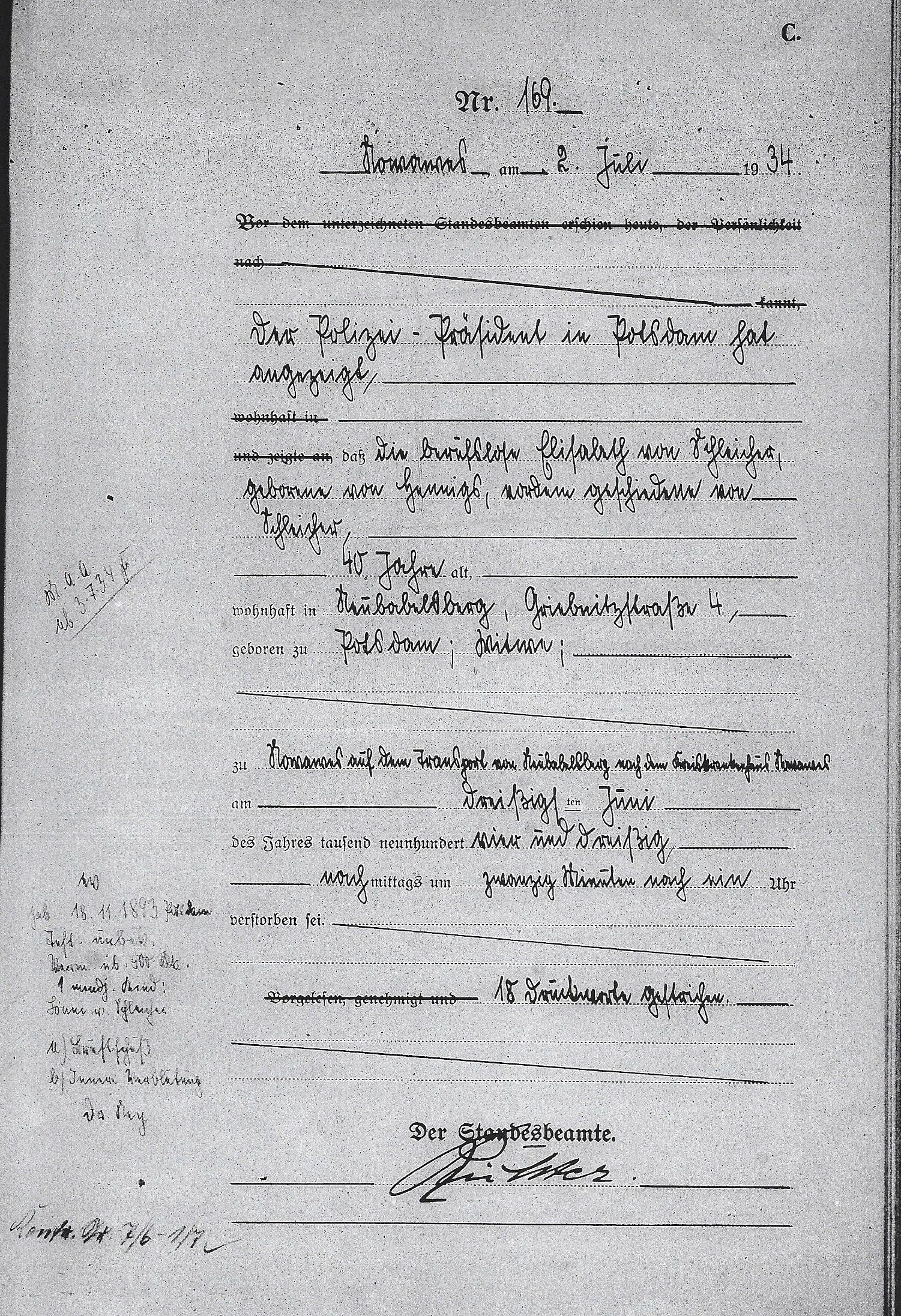 Death Ceritficate of Elisabeth von Schleicher, the wife of Reich-Chancellor Kurt von Schleicher, who was murdered on June 30 1934 together with her husband by a squad of agents of the SD of the SS.